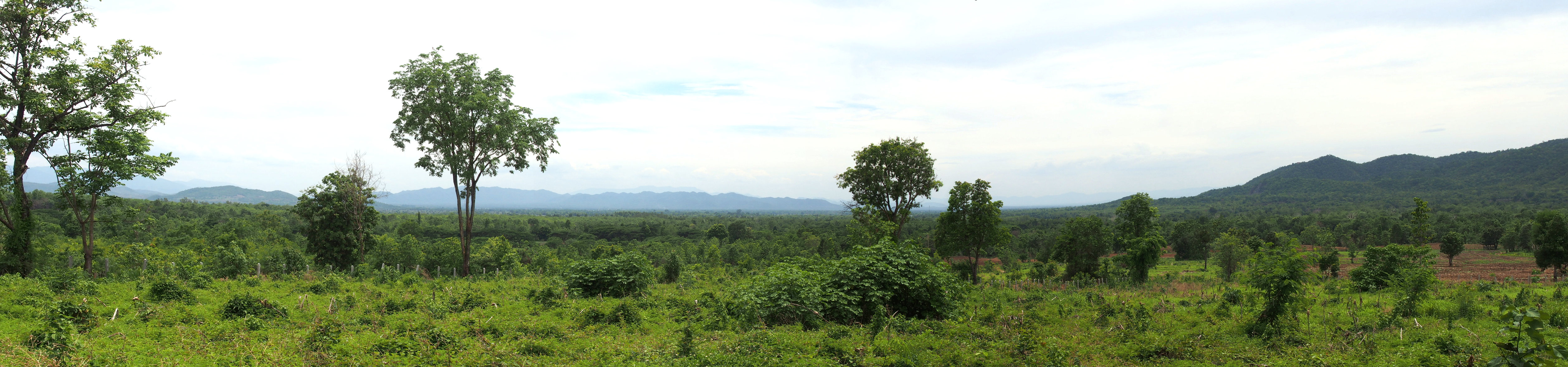 A panorama of the Mae Tha valley in Lampang Province as seen from Highway 11 looking west. The hills on the right and in the distance are part of the western fringe of the Phi Pan Nam Range. This image was created with Hugin.